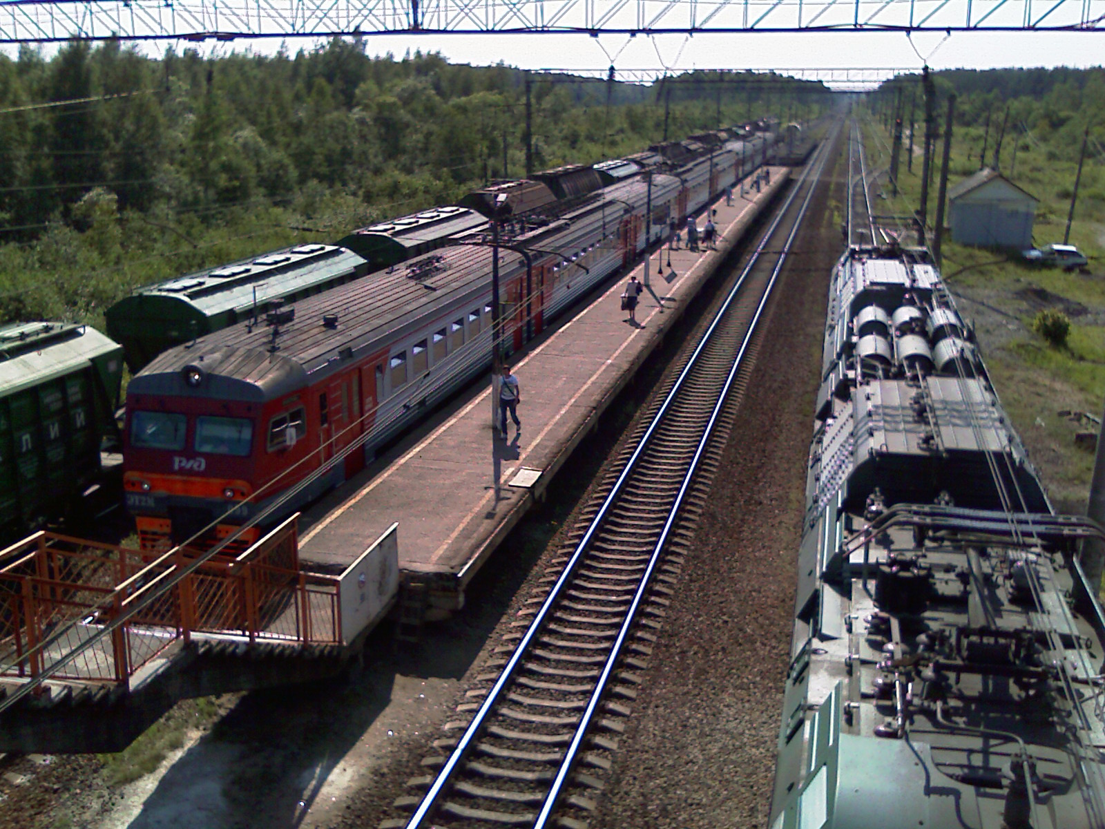 ET2M EMU at Pella station